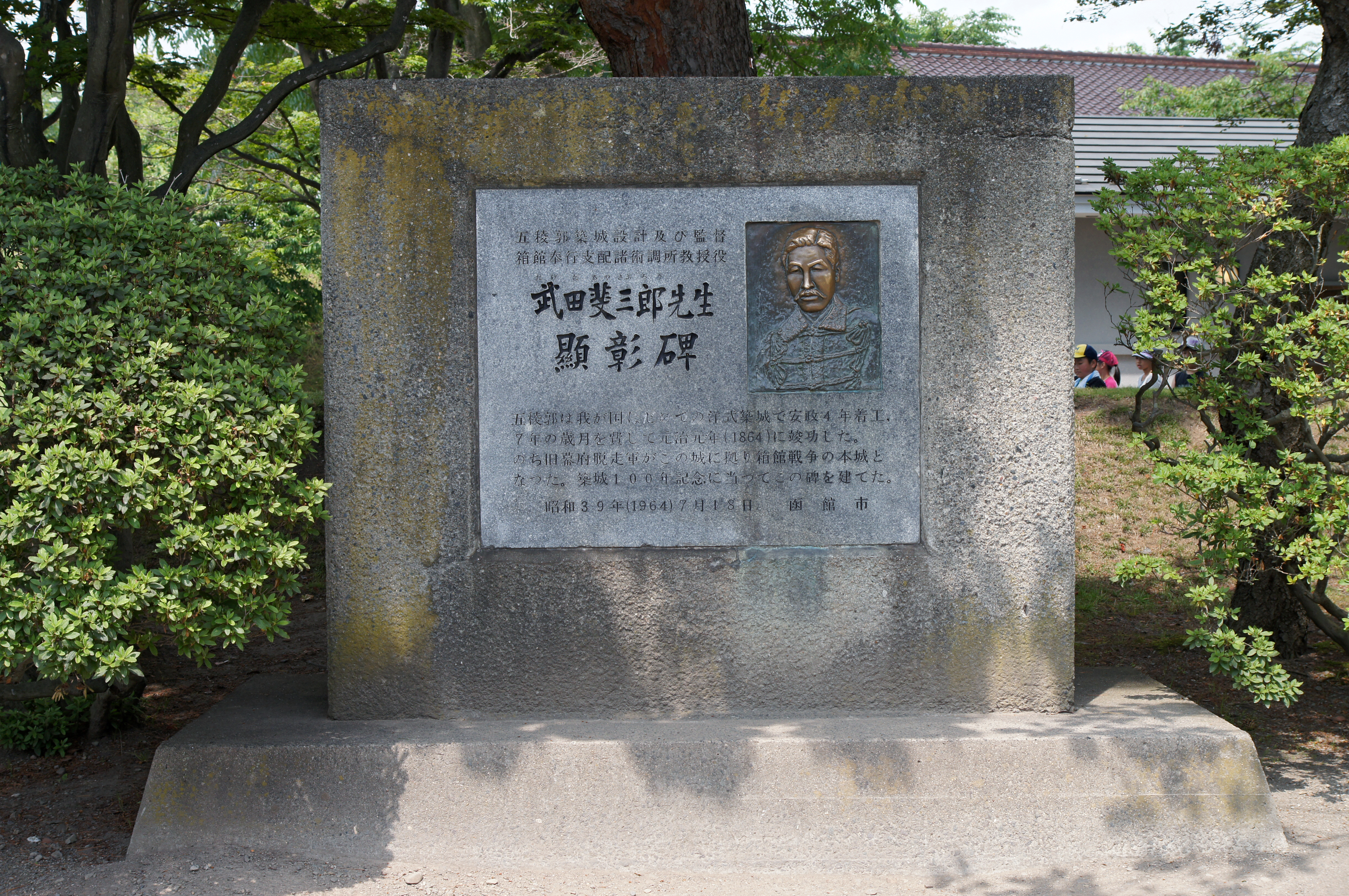 Goryōkaku in Hakodate, Hokkaido prefecture, Japan